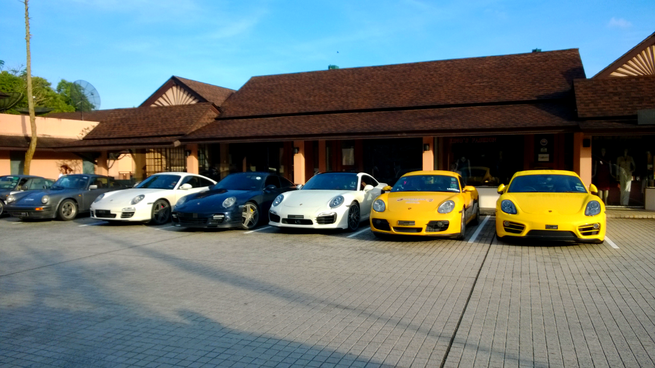 Porsche 911 SC, Porsche 911 Carrera S (997), Porsche 911 Turbo S (997), Porsche 911 Turbo S (991), Porsche Cayman S (987), Porsche Cayman (981)